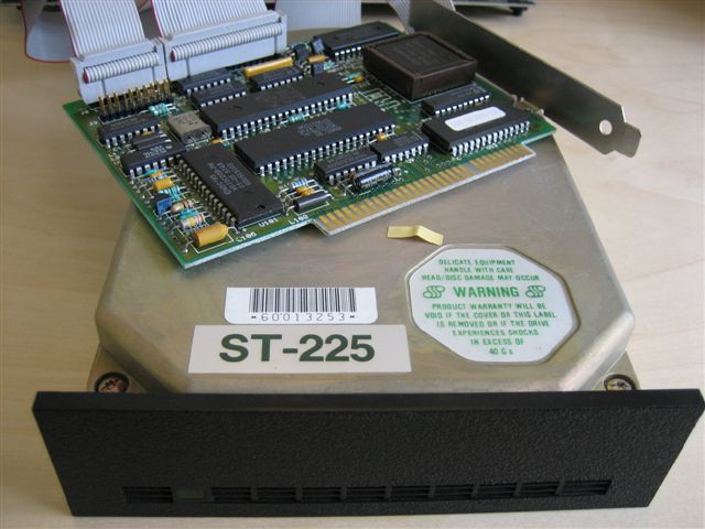 ST 225 20MB drive and WDC controller